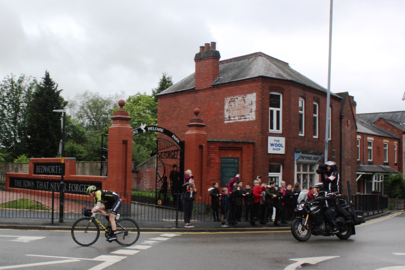 Sarah Roy has a slight lead on the fourth stage of the Women's Tour of 2019 as it passes through Bedworth in Warwickshire.